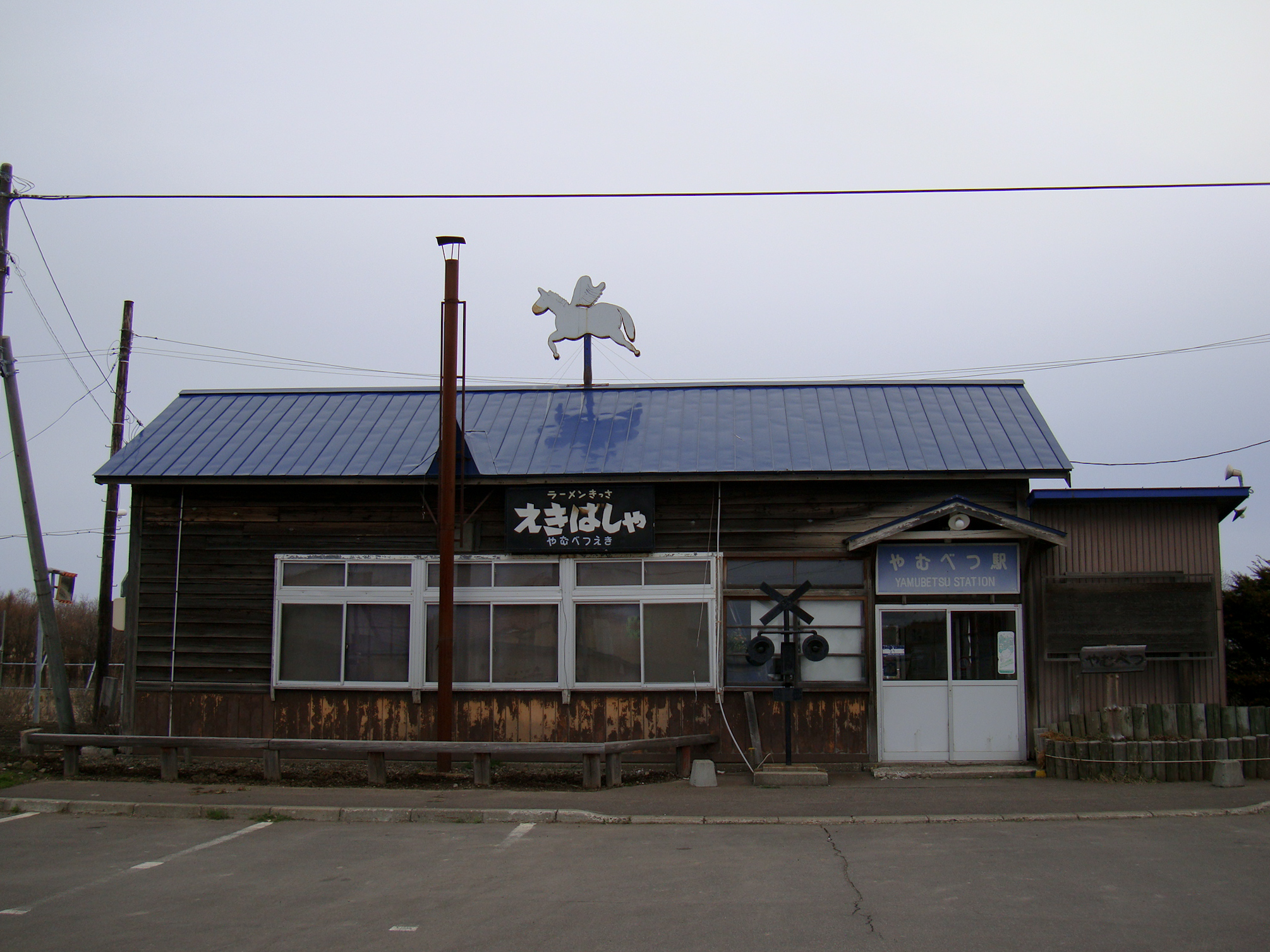 Yamubetsu Station